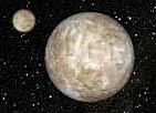 The moon of Orcus could easily be 1/4th to 1/3rd the diameter of Orcus itself. This diagram shows it as about 1/4th. This moon is relatively large compared to its parent body, and this is part of the reason that Orcus is called the Anti-Pluto.